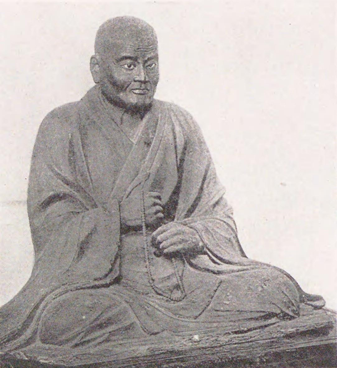 A statue of Tankei made in Kamakura period at Rokuharamitsuji, Kyoto, Kyoto prefecture. An Important Cultural Property of Japan.